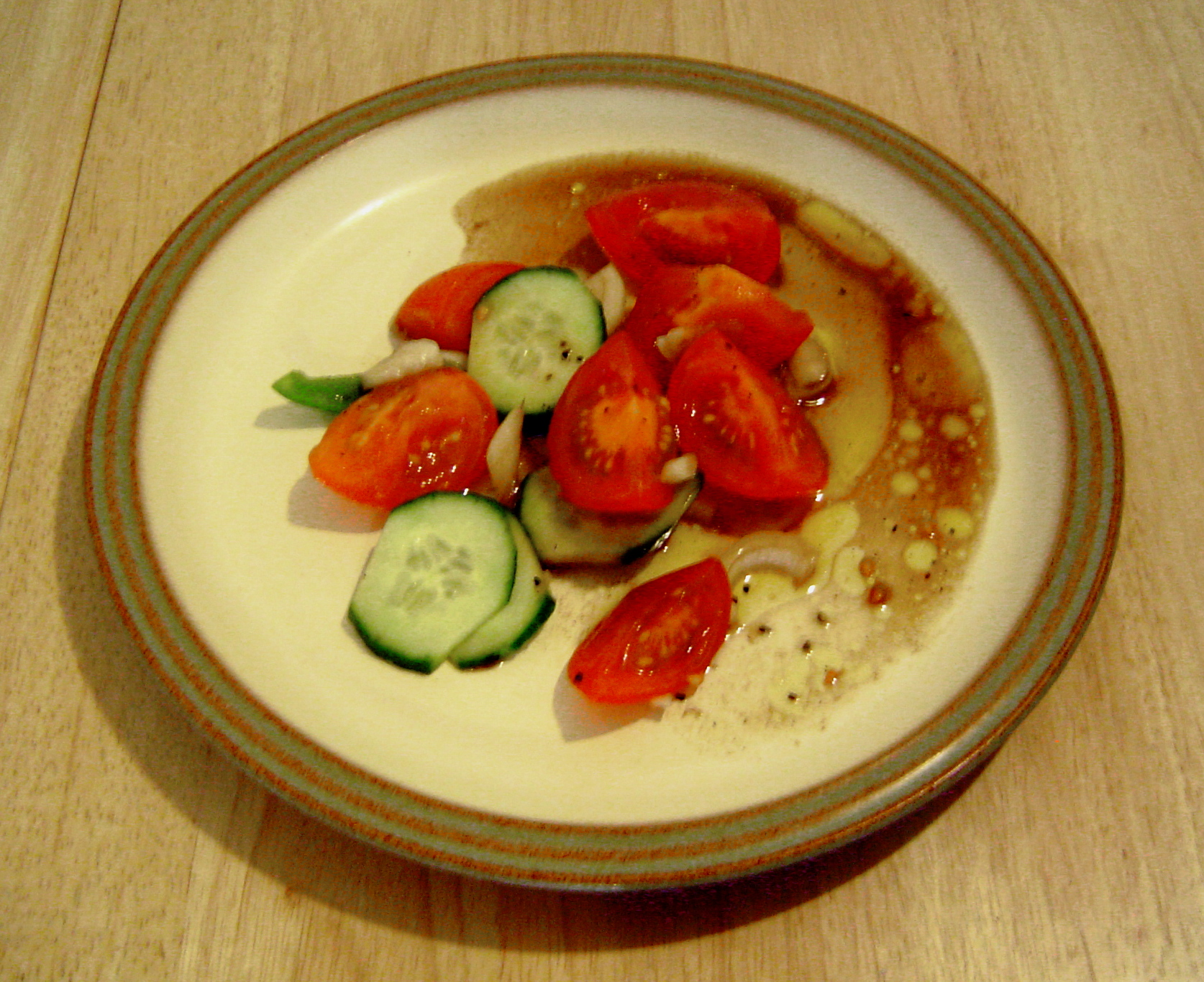 Tomato and cucumber salad, with onion, olive oil and balsamic vinegar